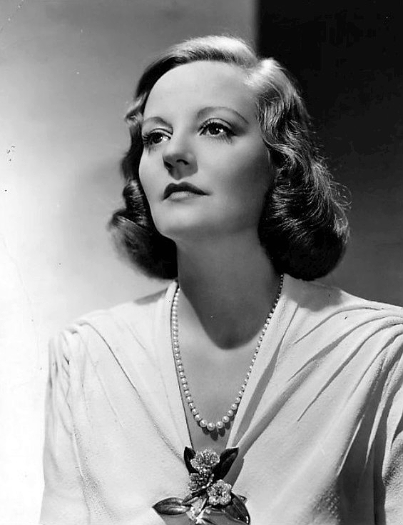 Photo of Tallulah Bankhead from the play The Little Foxes.